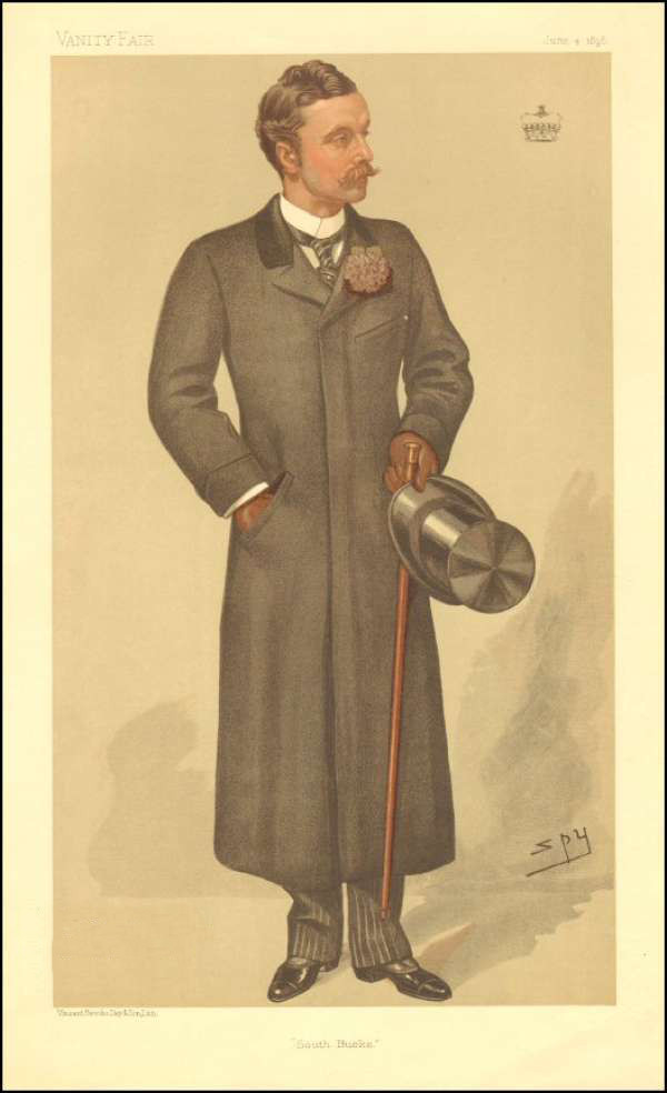 Statesmen No.672: Caricature of Viscount Curzon MP. Caption reads: "South Bucks"